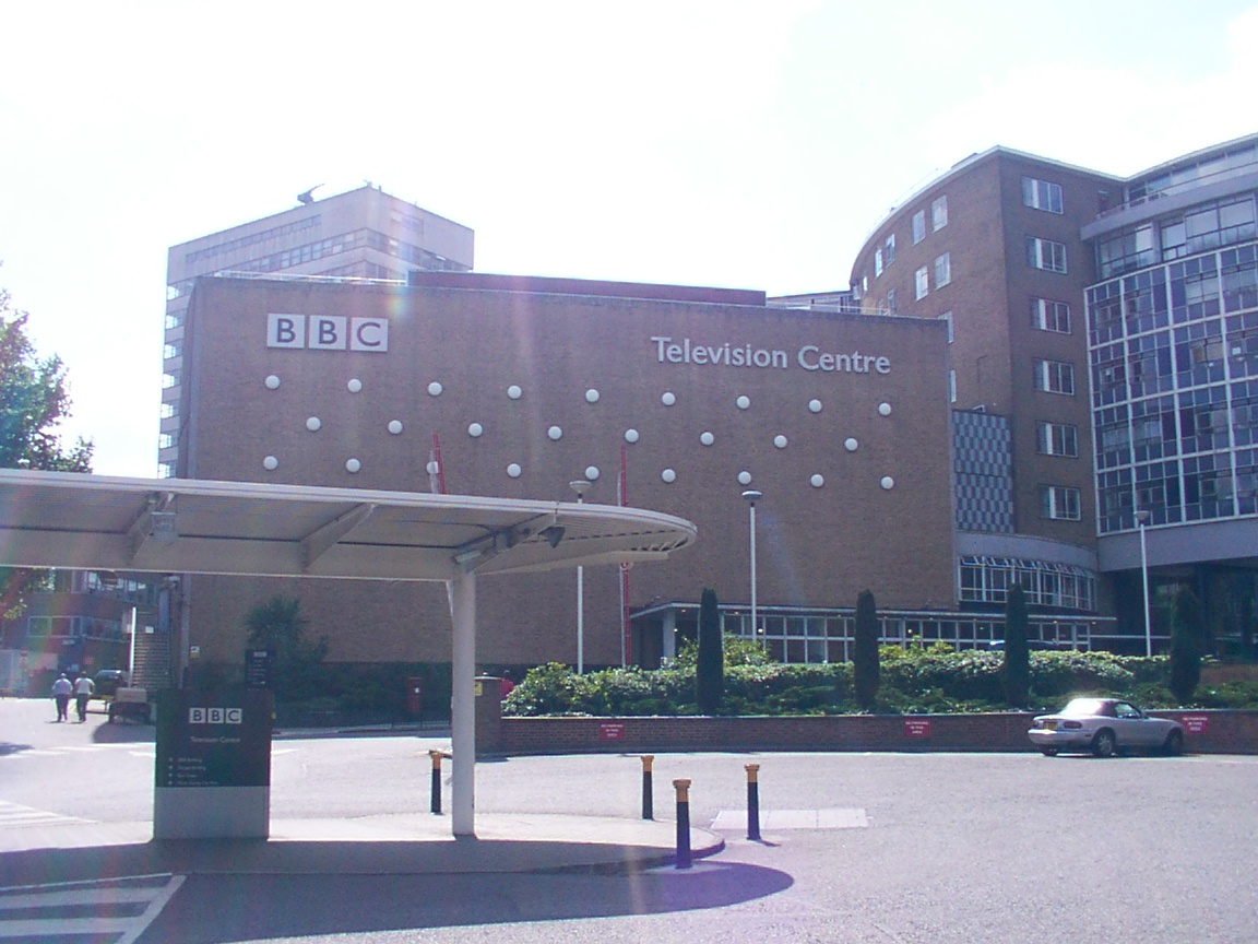 Shot of the side of Studio TC1, BBC Television Centre, London